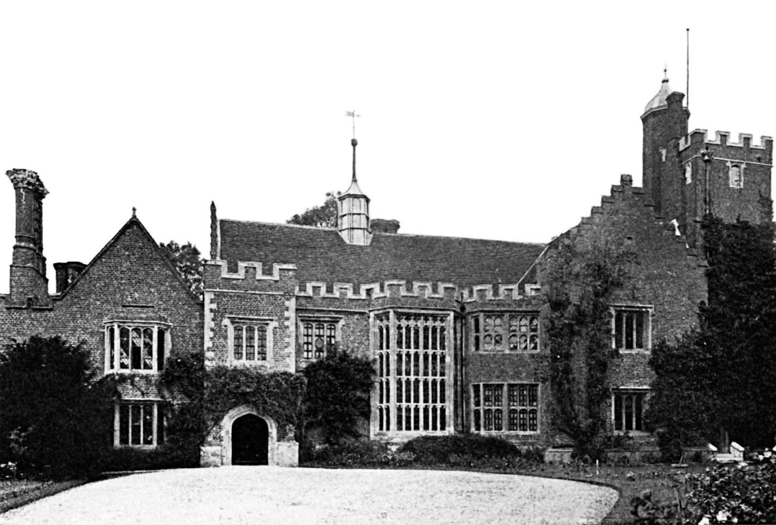 Horham Hall, Manor House in Essex, England Taken from Liam's Pictures from Old Books Published in 1909 as The Growth of the English House by J. Alfred Gotch, London